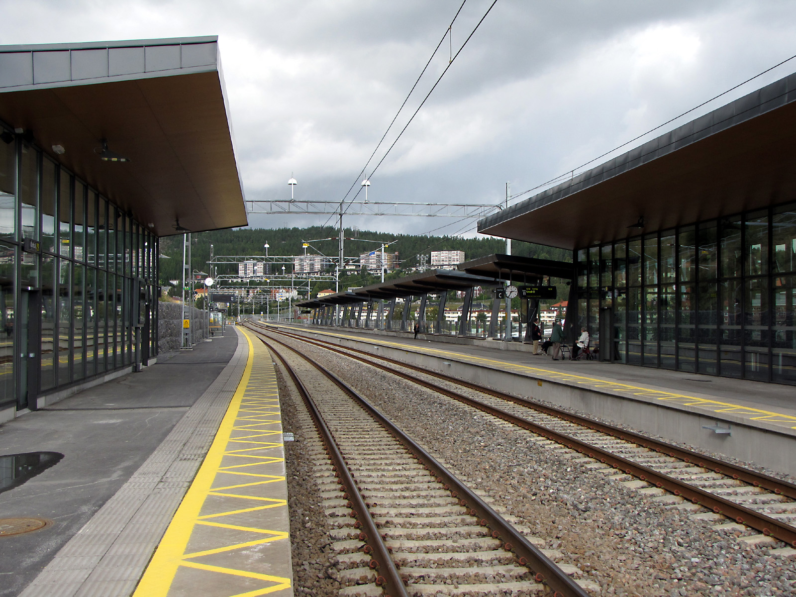 Railway platform at the train station in Örnsköldsvik, Sweden.